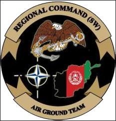 Logo of the Regional Command (SW) in Afghanistan.